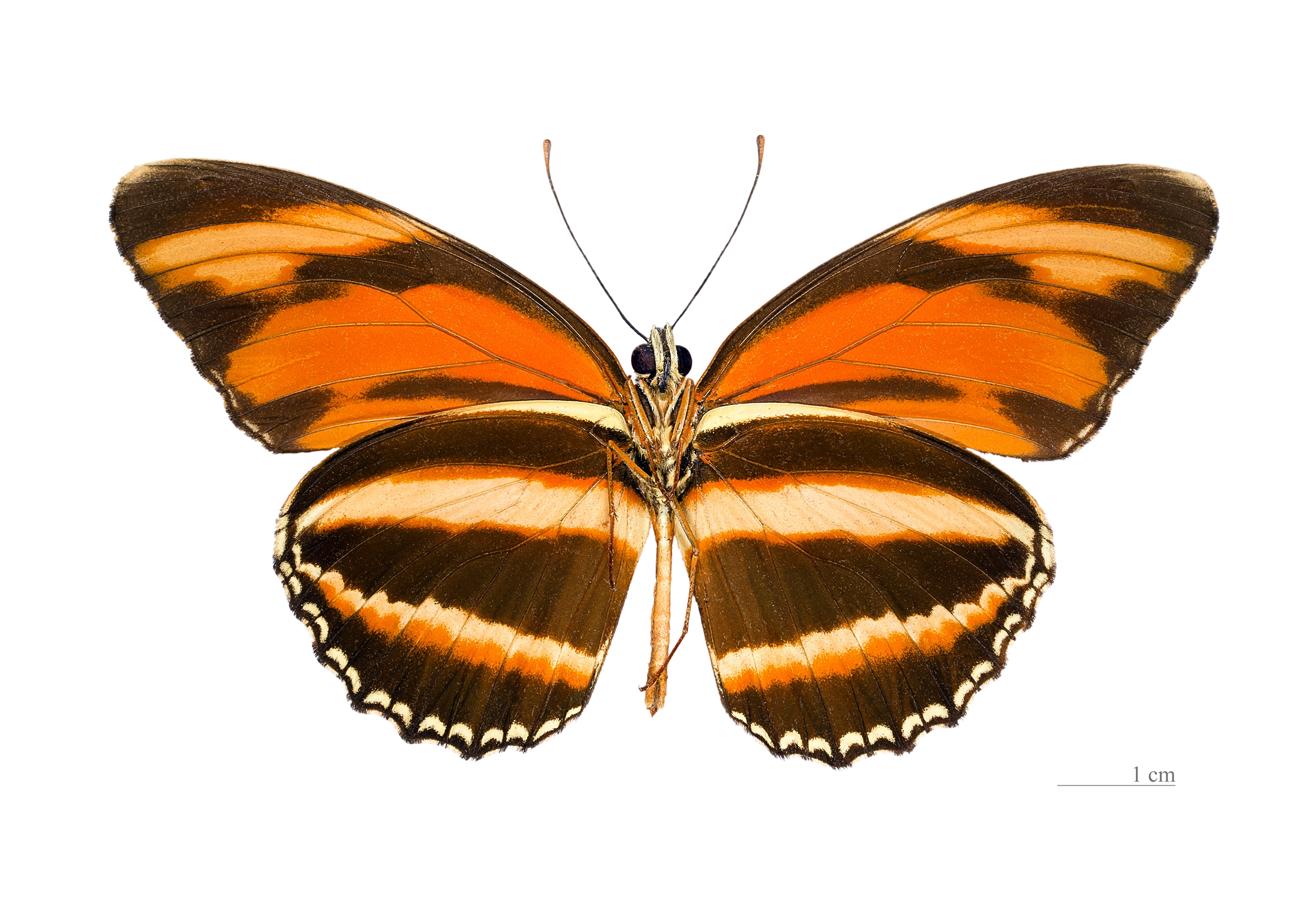 △ Ventral side